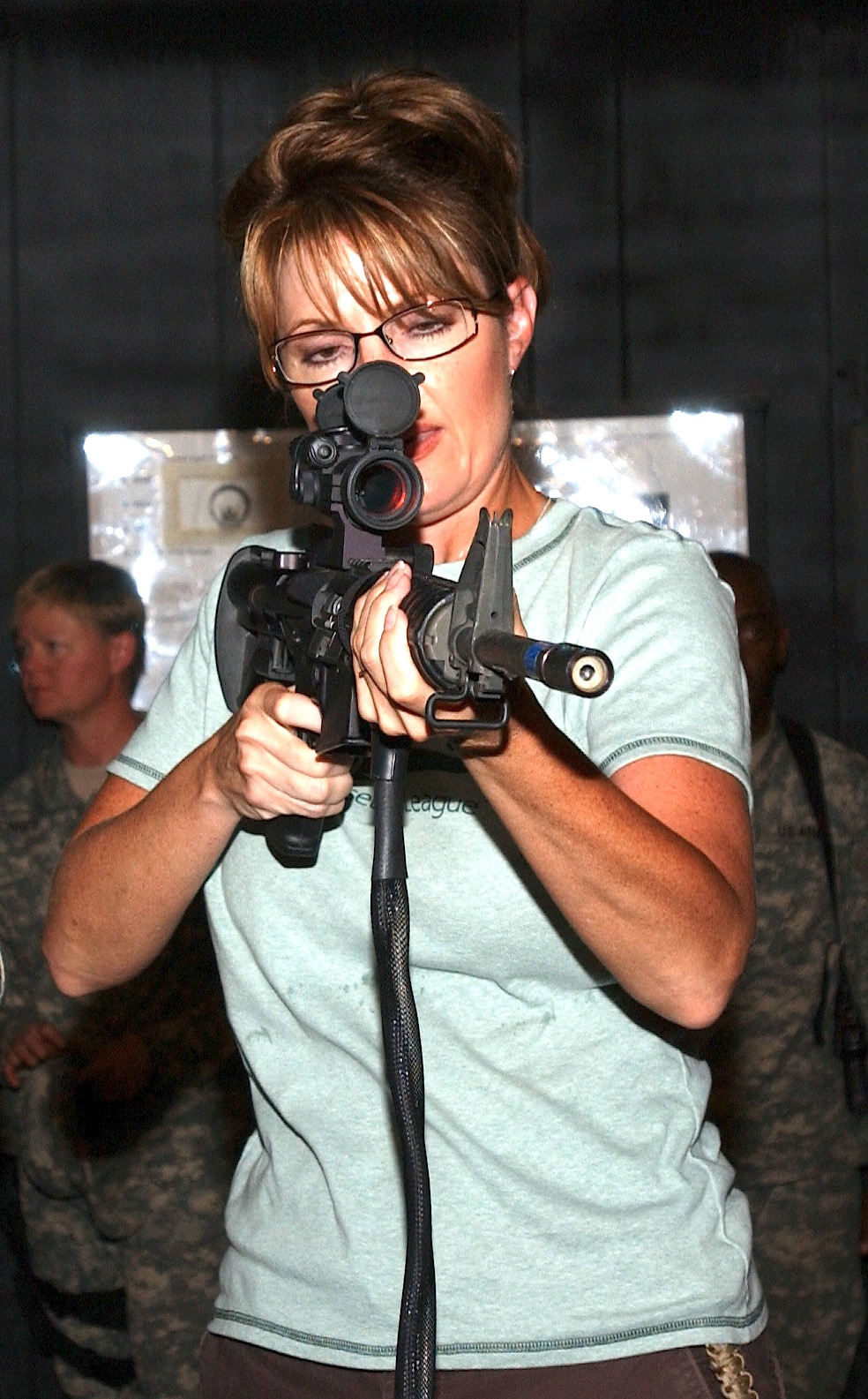 Camp Buehring, Kuwait - Lt. Col. David Cogdall helps Alaska Governor Sarah Palin test out the Engagement Skills Trainer at Camp Buehring, Kuwait, July 24. Palin visited the Soldiers of 3rd Battalion, 297th Infantry Regiment, Alaska National Guard to learn about their mission in Kuwait.